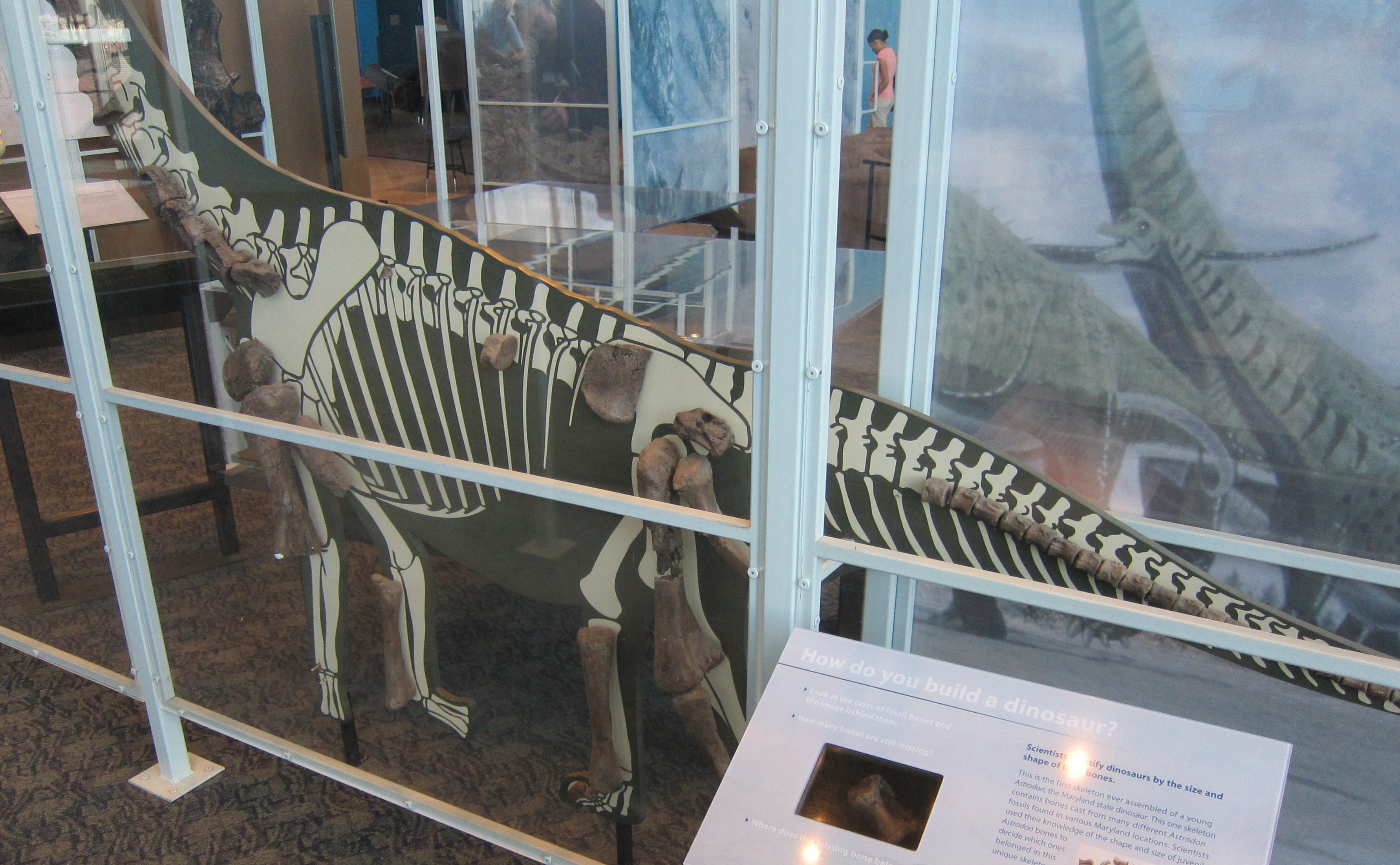 In the Maryland Science Center Edward St. John Hall